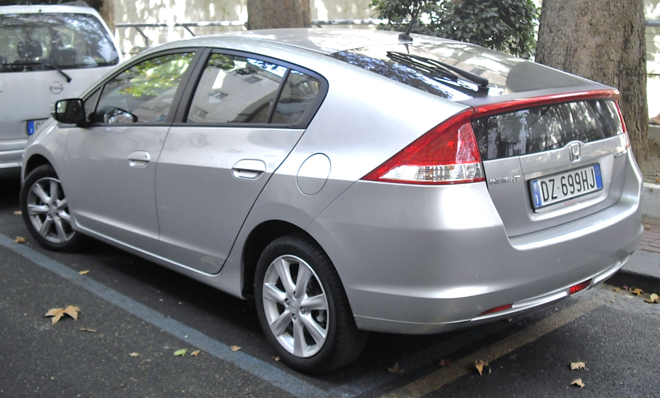 2010 Honda Insight